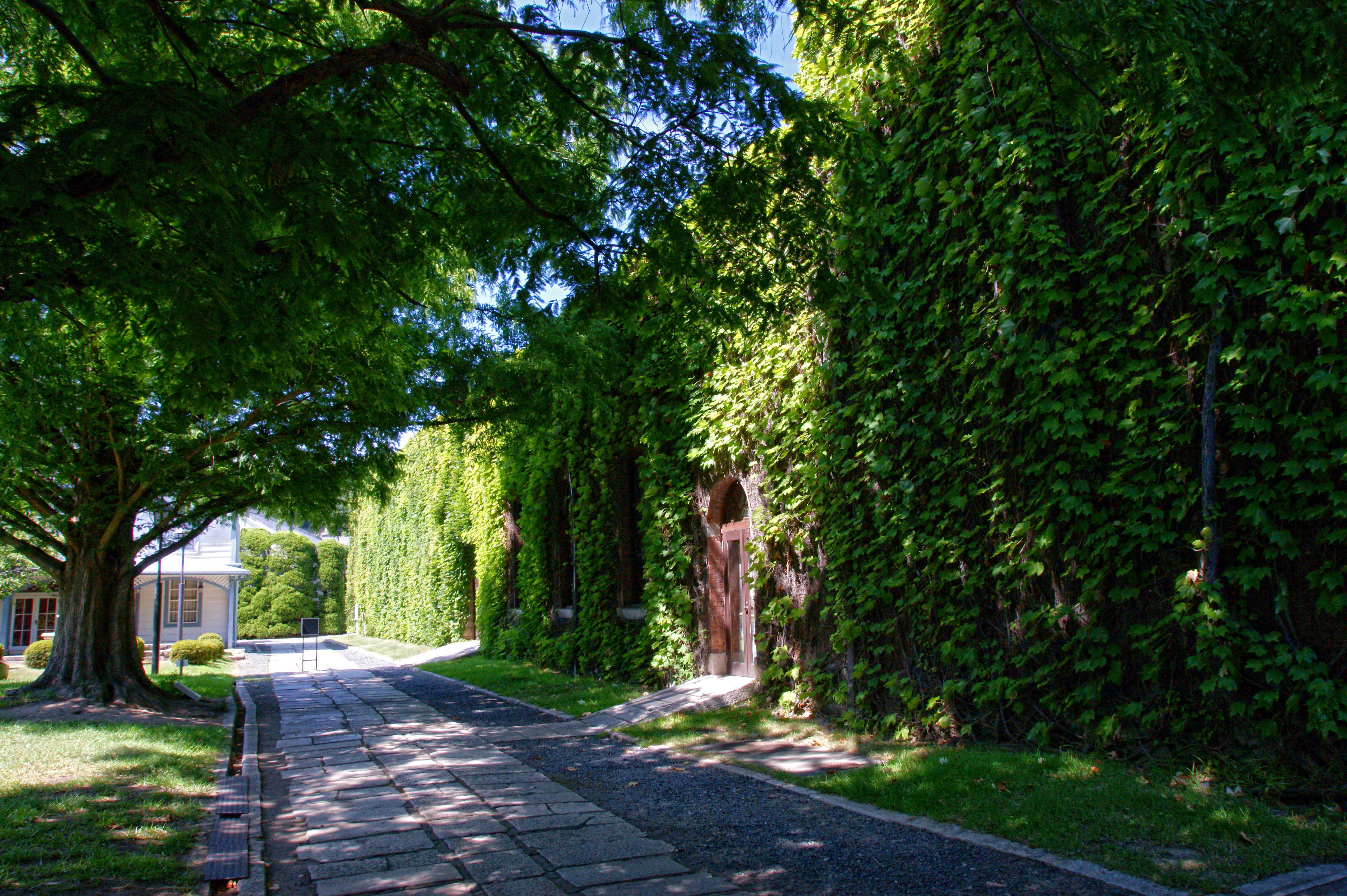 Kurashiki Ivy Square in Kurashiki, Okayama prefecture, Japan